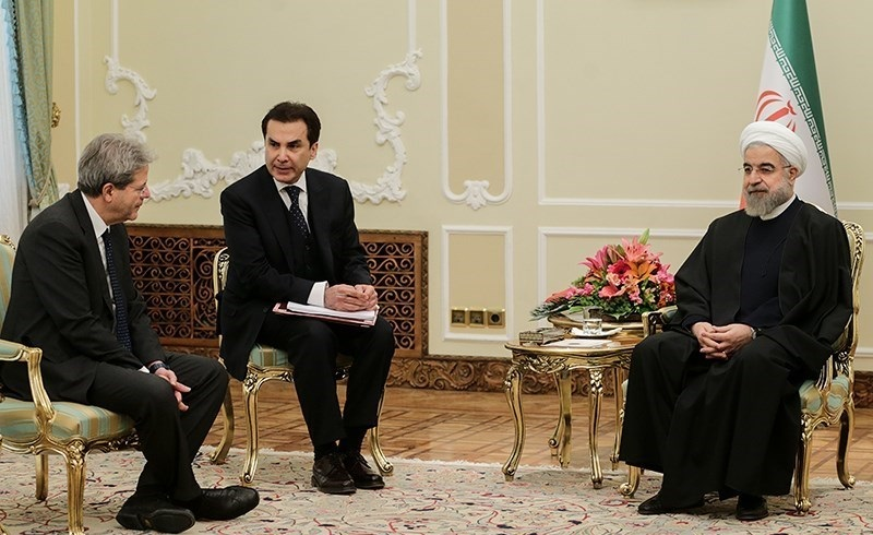 Iranian President in his officem meeting with Italian Foreign Minister Paolo Gentiloni